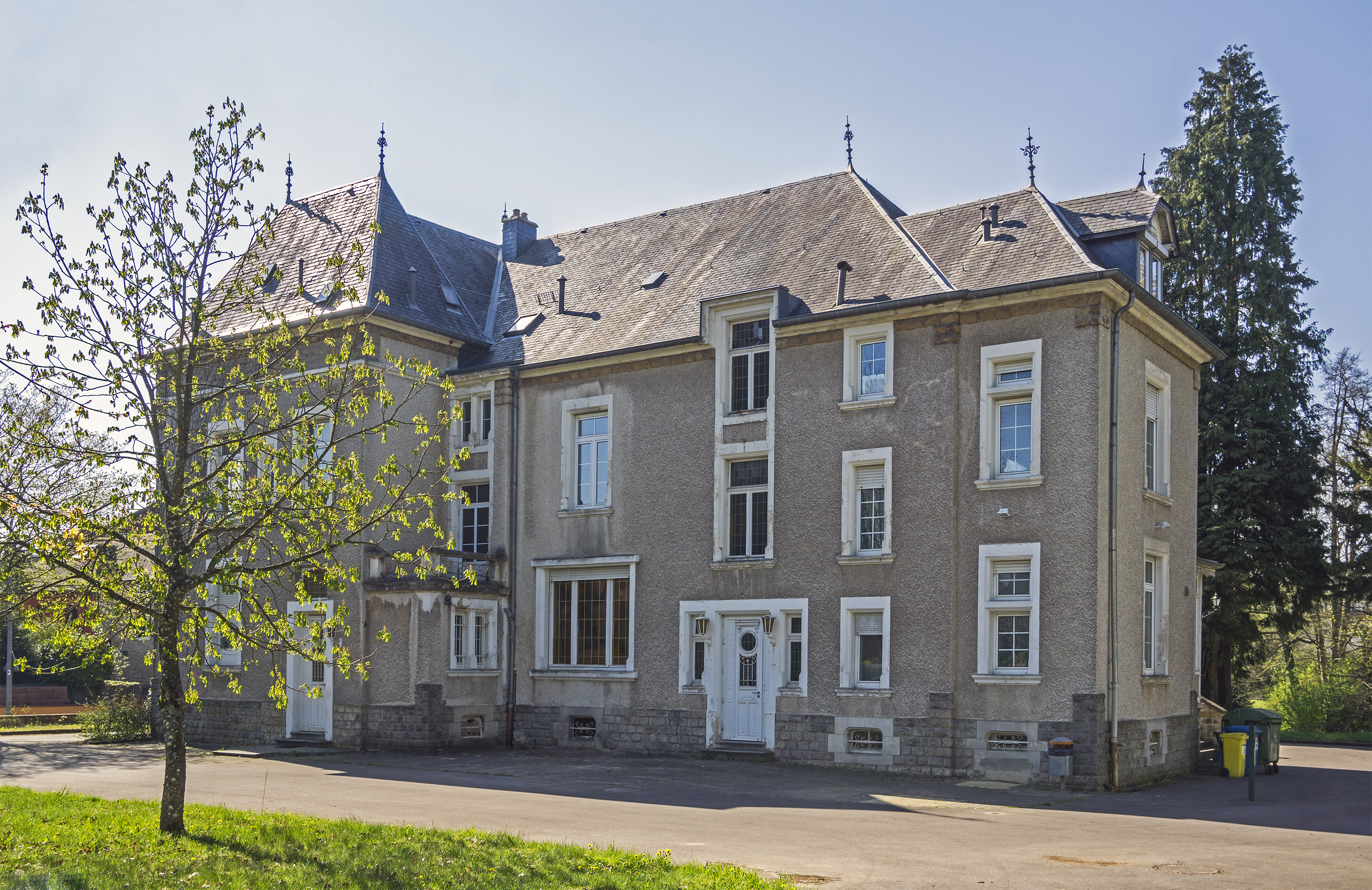 Villa Collart in Steinfort, 15 rue de Hobscheid